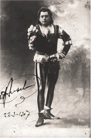 Photo of italian opera singer Guiseppe Anselmi (1876-1929)